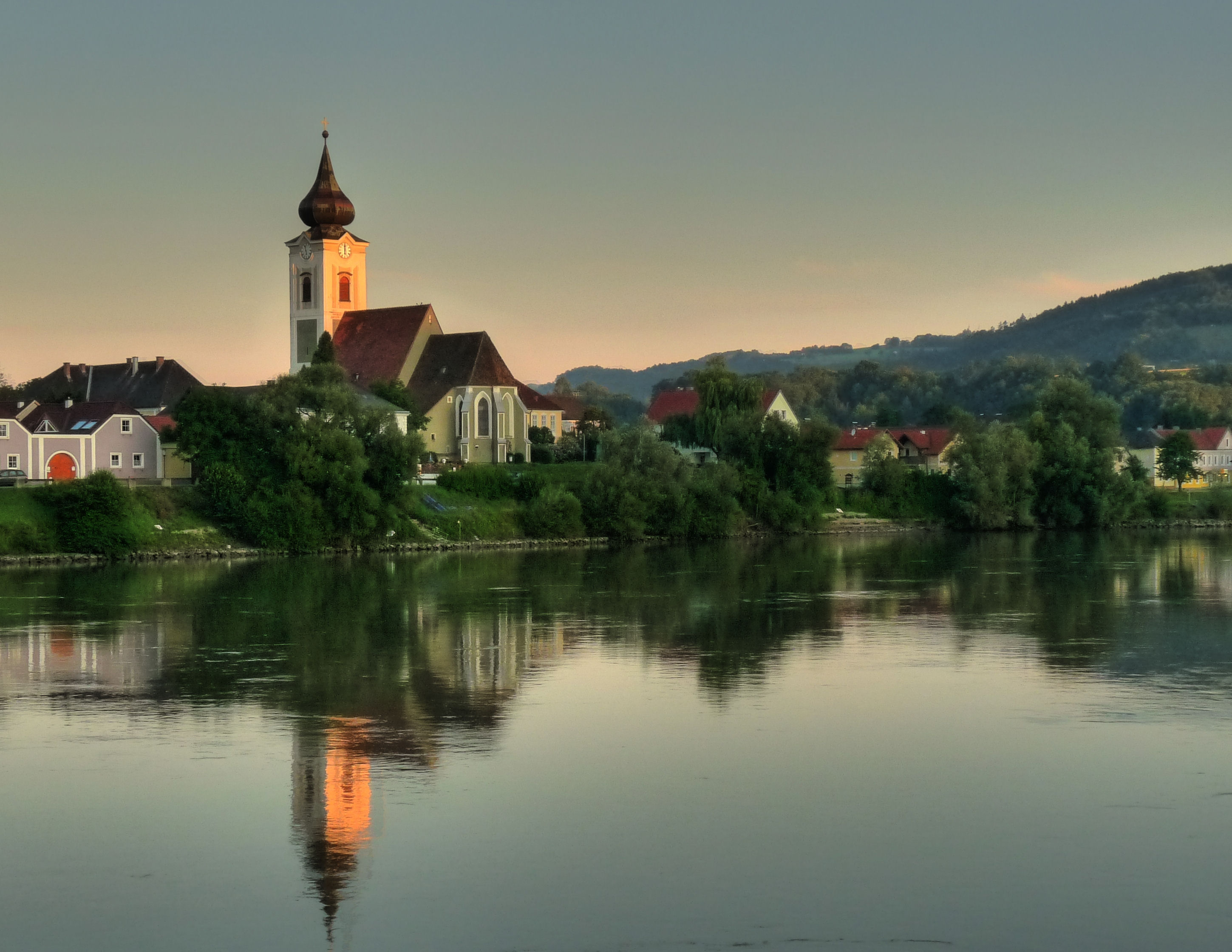 It doesn't come out clearly via flickr's compression, but the two clocks are 5 minutes apart. Austria. Below Vienna. Used in these web sites: citysounds.fm/vienna